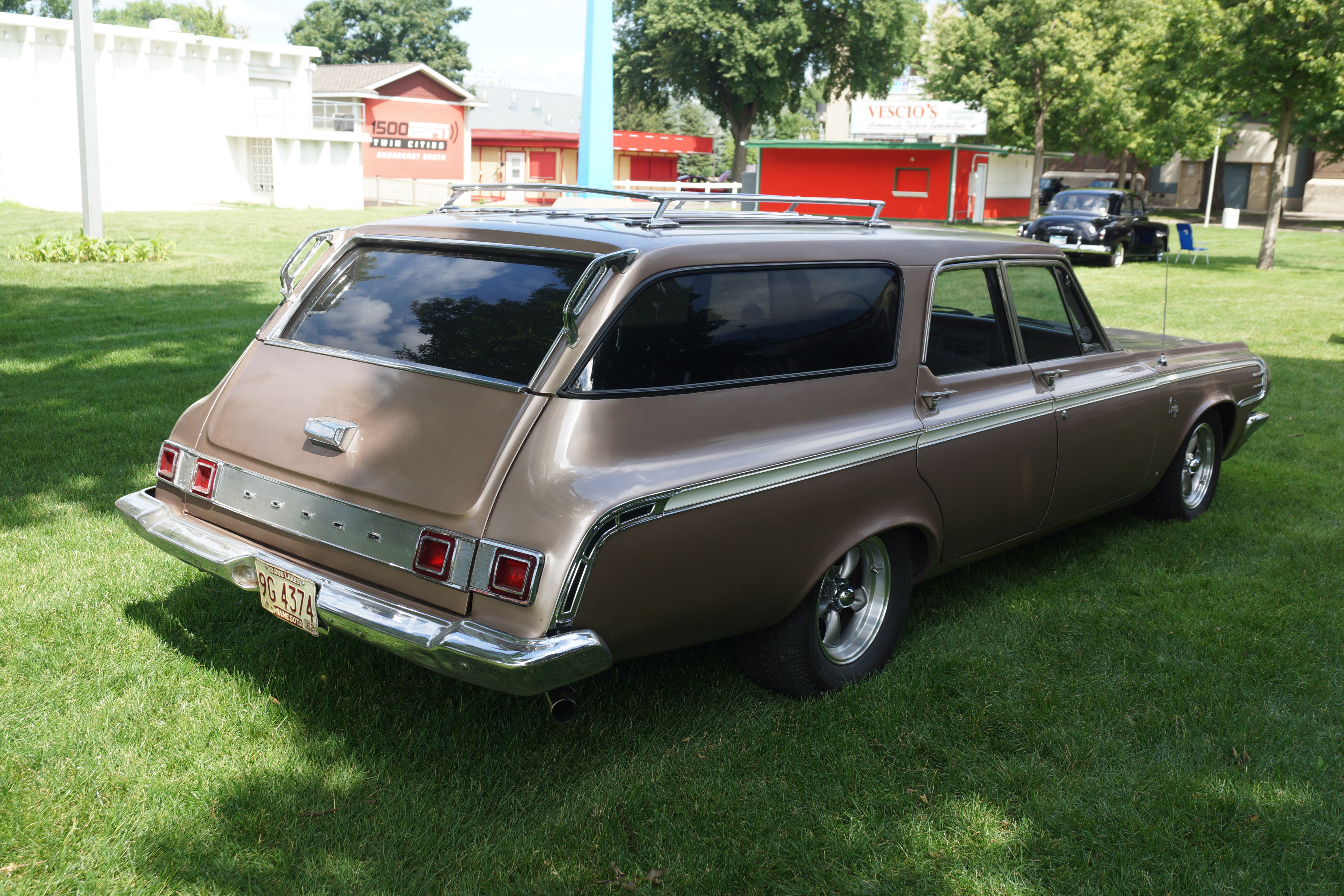 Click here for more car pictures at my Flickr site. O'Reilly Auto Parts Street Machine Summer Nationals Minnesota State Fairgrounds St. Paul, Minnesota July 2016